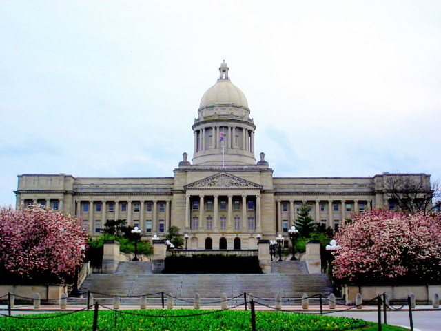 Kentucky State Capitol Building,Frankfort, KY.